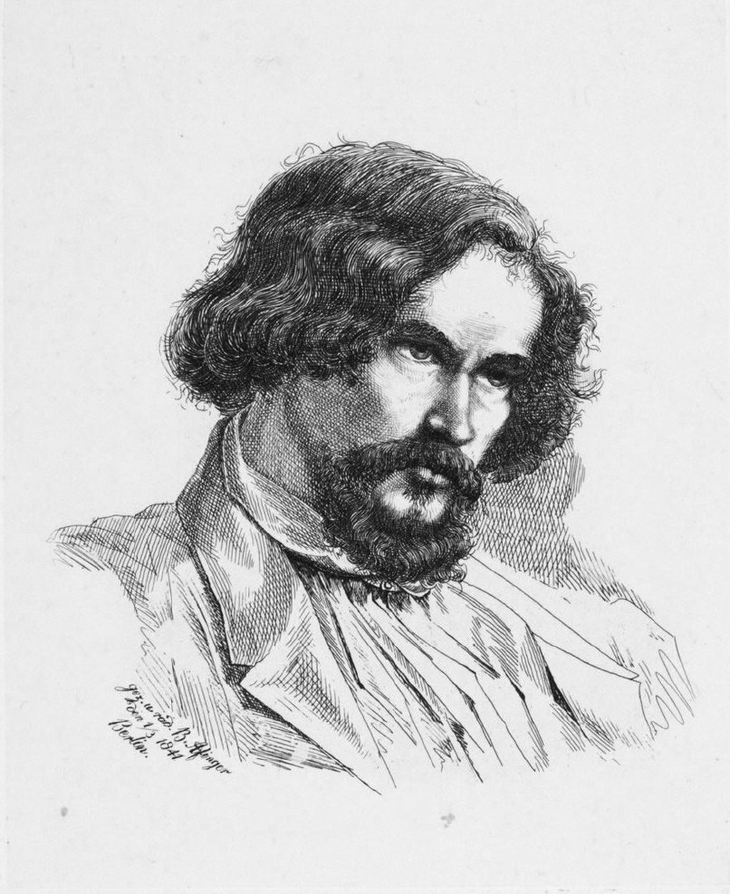 Bernhard Afinger, self-portrait etching 14.3 x 11.6 cm